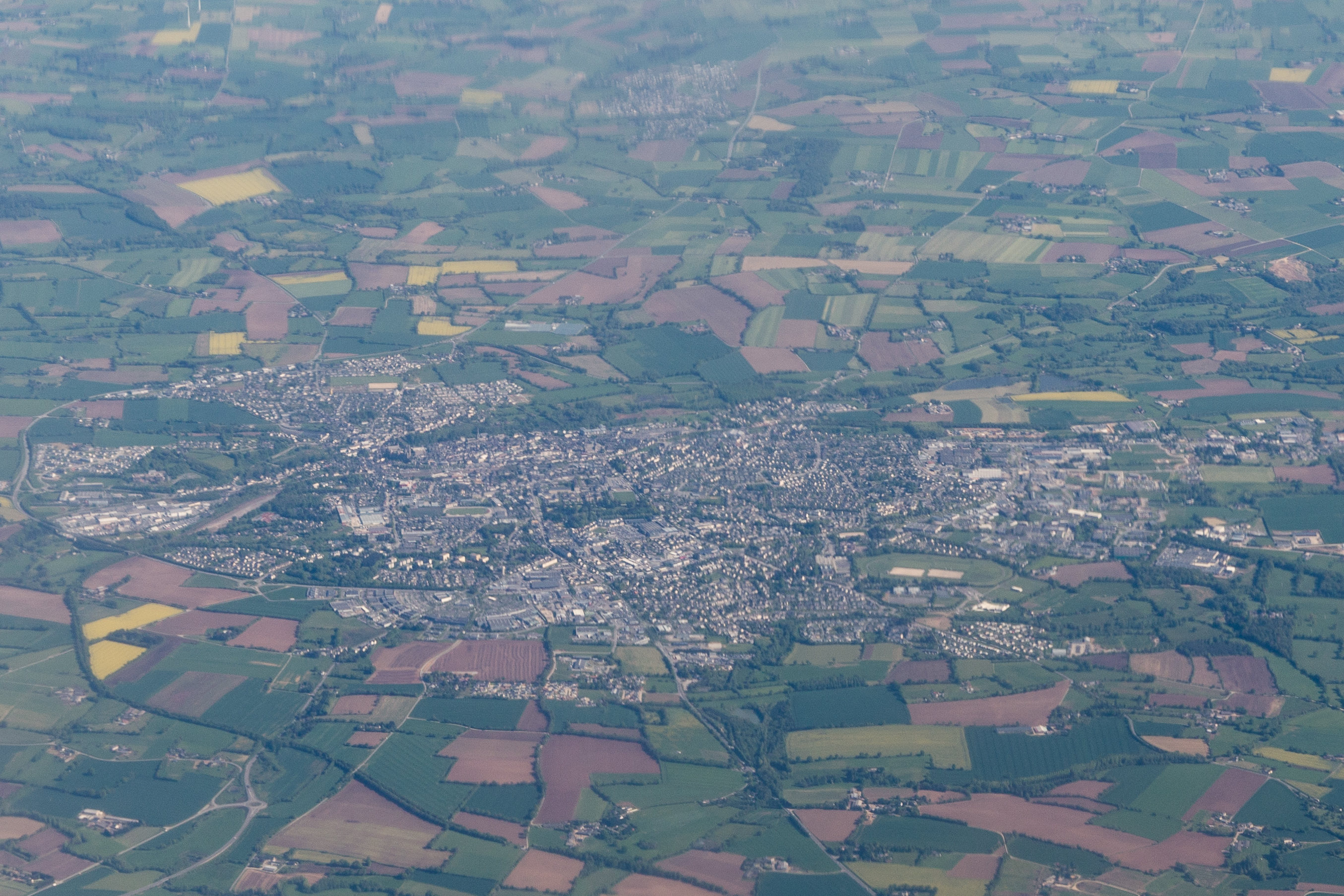 Aerial view of Vitré during a flight between RNS and CDG.